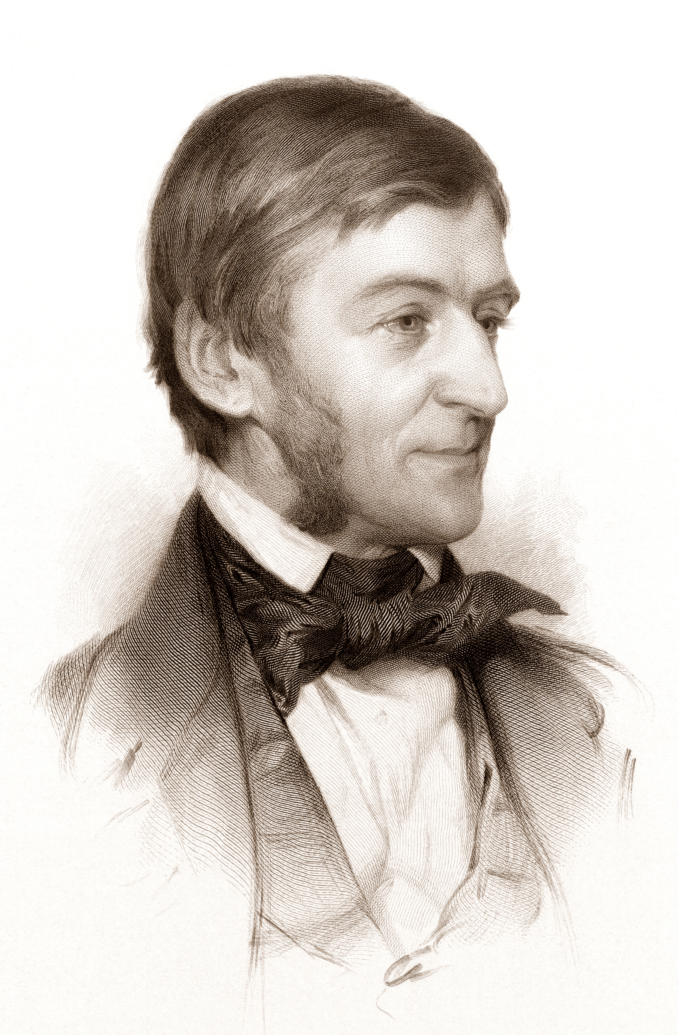 " [Ralph Waldo Emerson, head-and-shoulders portrait, facing right] / engraved and published by S.A. Schoff ... from an original drawing by Sam W. Rowse in the possession of Charles Eliot Norton, Esq. ; S.A. Schoff." Engraving.